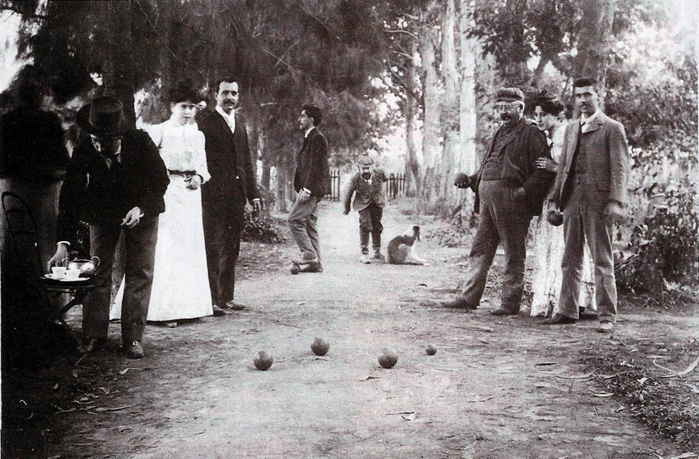 The Oliver family playing bowls ("bocce" as it was known by Italian immigrants, then popularized as "bochas") in their country house of San Vicente, Buenos Aires province. Oliver was one of the photography piooners in Argentina.